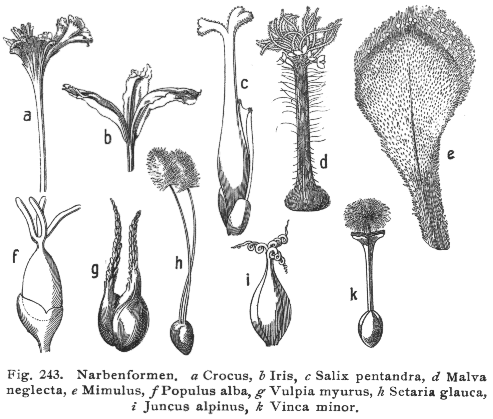 Figure 243 from Hegi, G.: Illustrierte Flora von Mittel-Europa, p. 129. Caption: Stigmata. a Crocus, b Iris, c Salix pentandra, d Malva neglecta, e Mimulus, f Populus alba, g Vulpia myurus, h Setaria glauca, i Juncus alpinus, k Vinca minor.